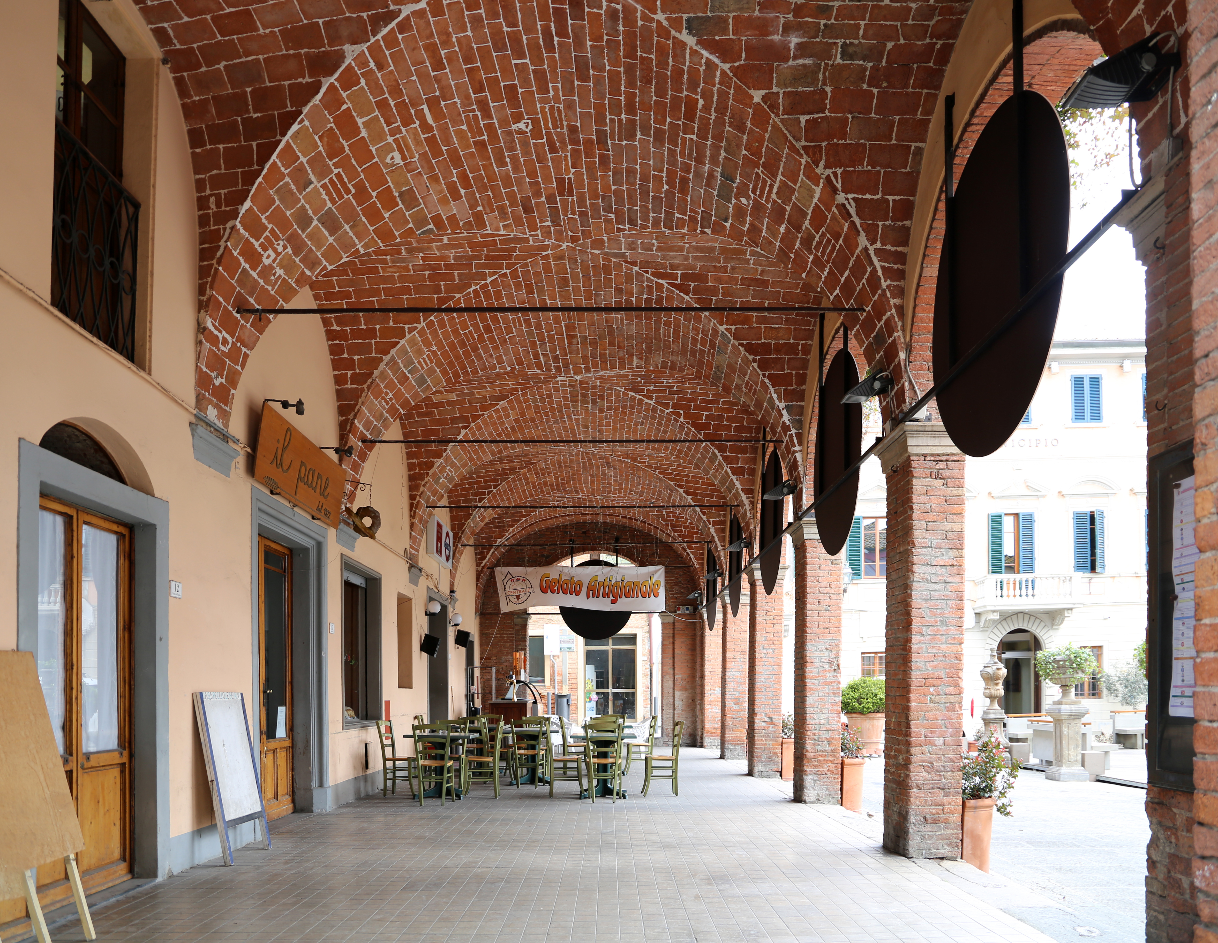 Peccioli